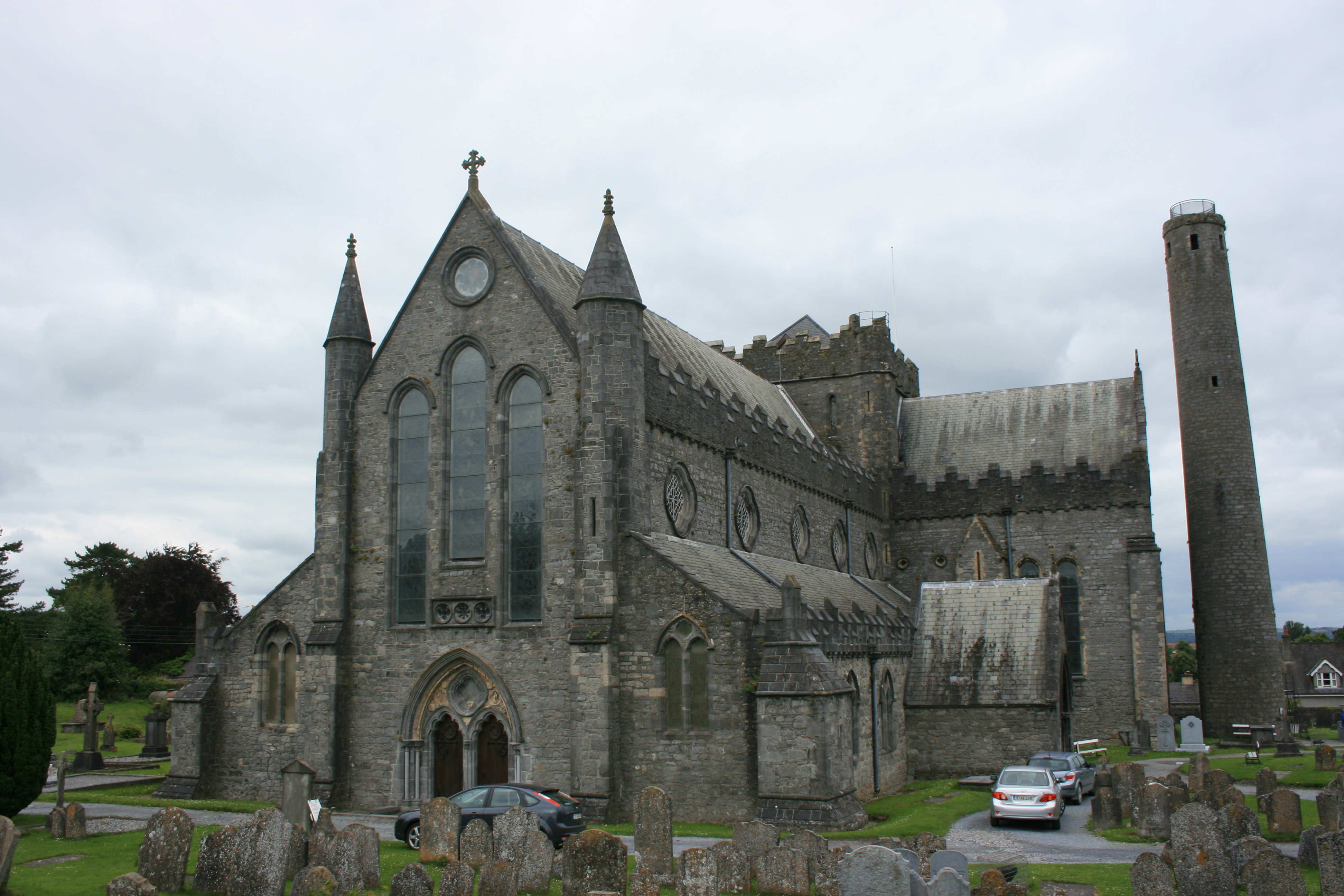 San Canice's cathedral and round tower, Kilkenny, Ireland